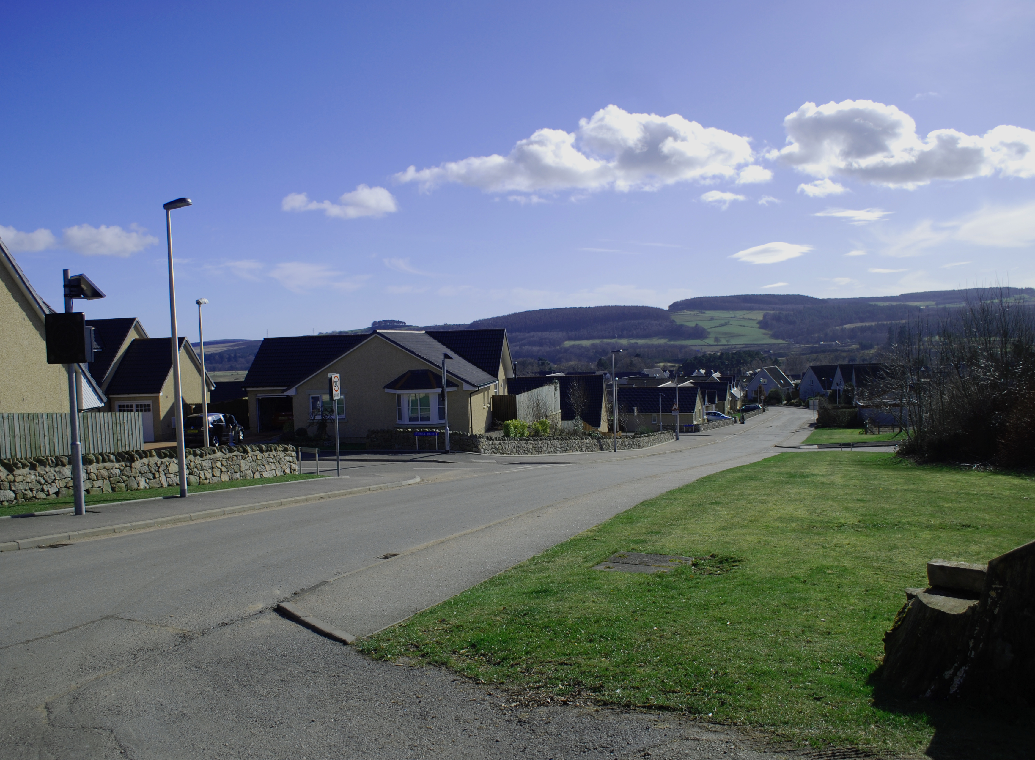 Drumoak vilage